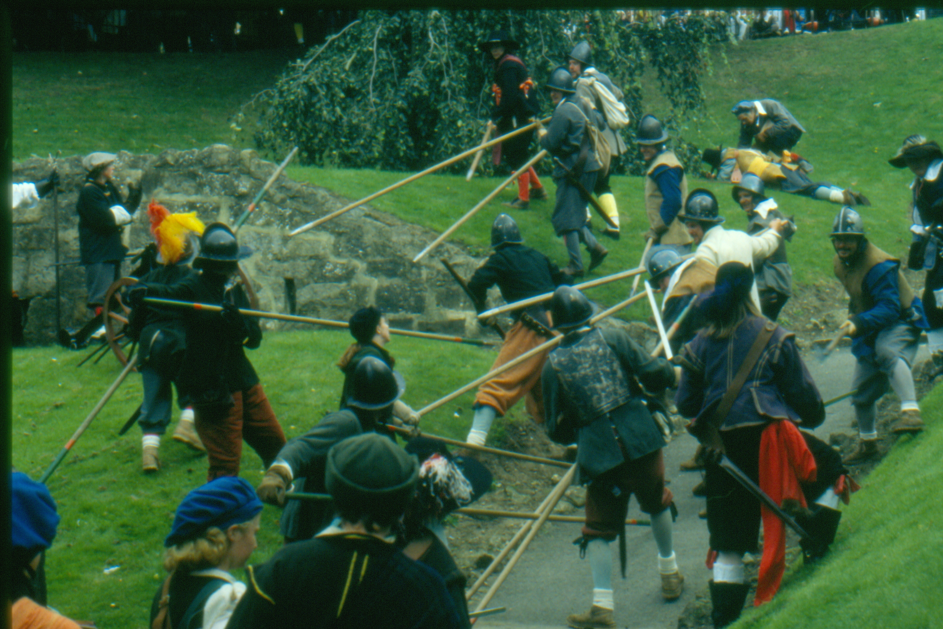 Members of The Sealed Knot dressed as English Civil War soldiers during a public historical reenactment at Knaresborough Castle during 1999. Scan of a film slide held at the Mercer Art Gallery